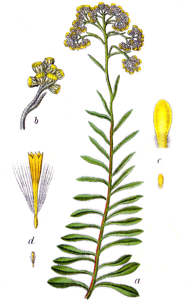 Helichrysum arenarium (L.) Moench, syn. Gnaphalium arenarium L. Original Caption Sand-Immortelle, Gnaphalium arenarium